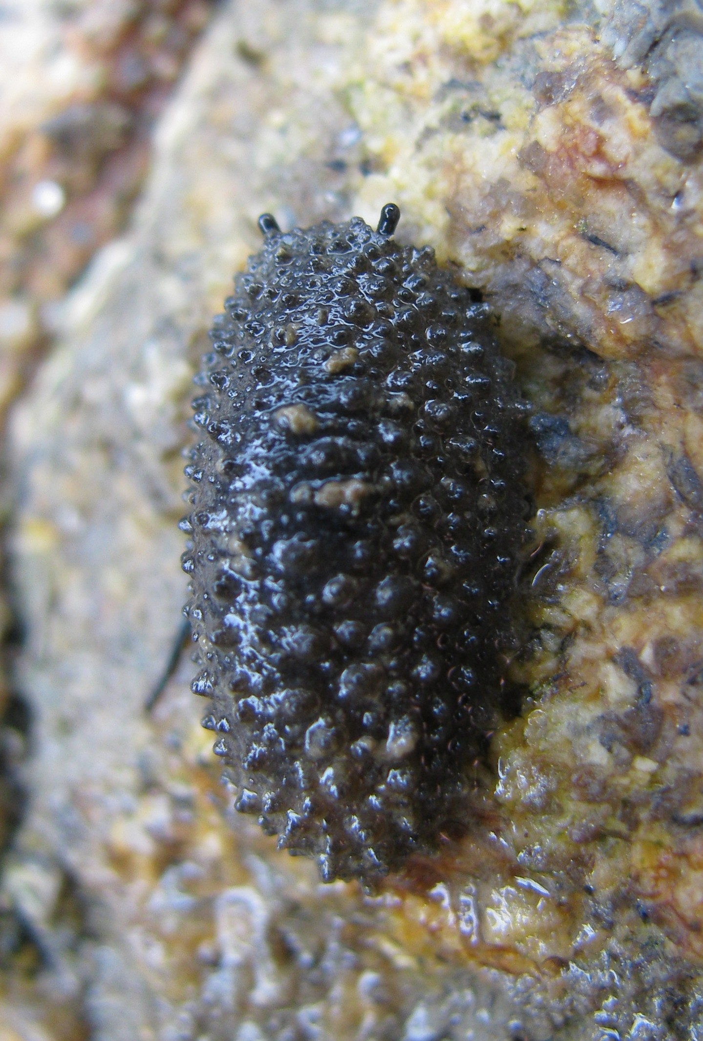 Ochidella celtica, dorsal view.